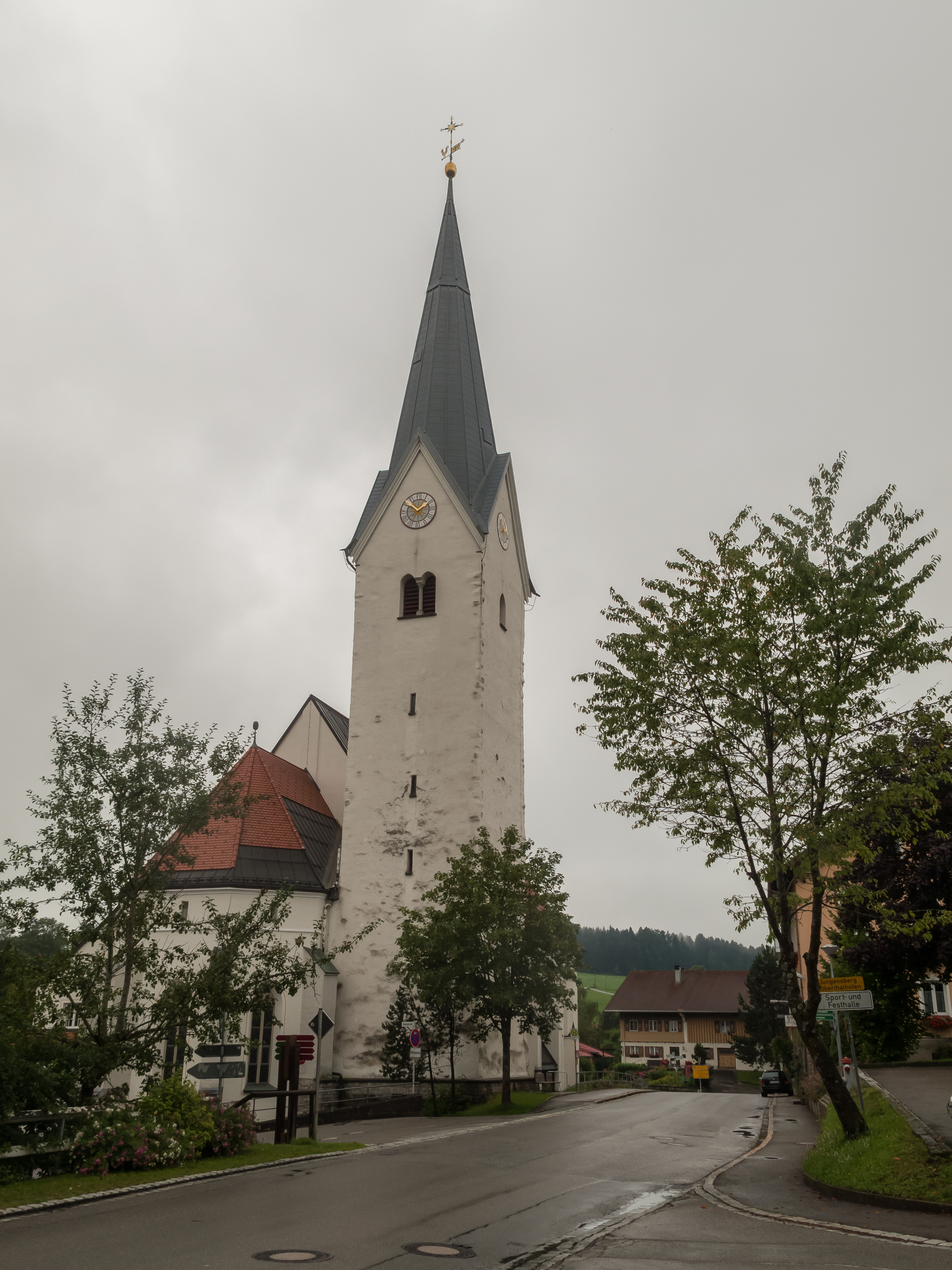 Stiefenhofen, church: katholische Pfarrkirche Sankt MartinThis is a photograph of an architectural monument.